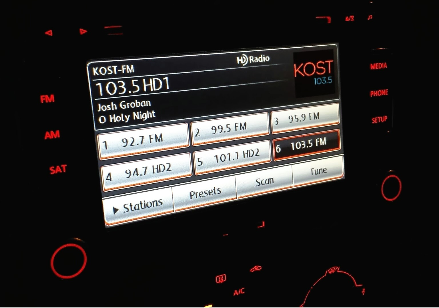 Los Angeles, CA